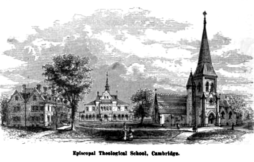 Buildings of the Episcopal Theological School, on Brattle Street in Cambridge, Massachusetts. Designed by Ware and Brunt, the St. John's Chapel is dated to 1868.